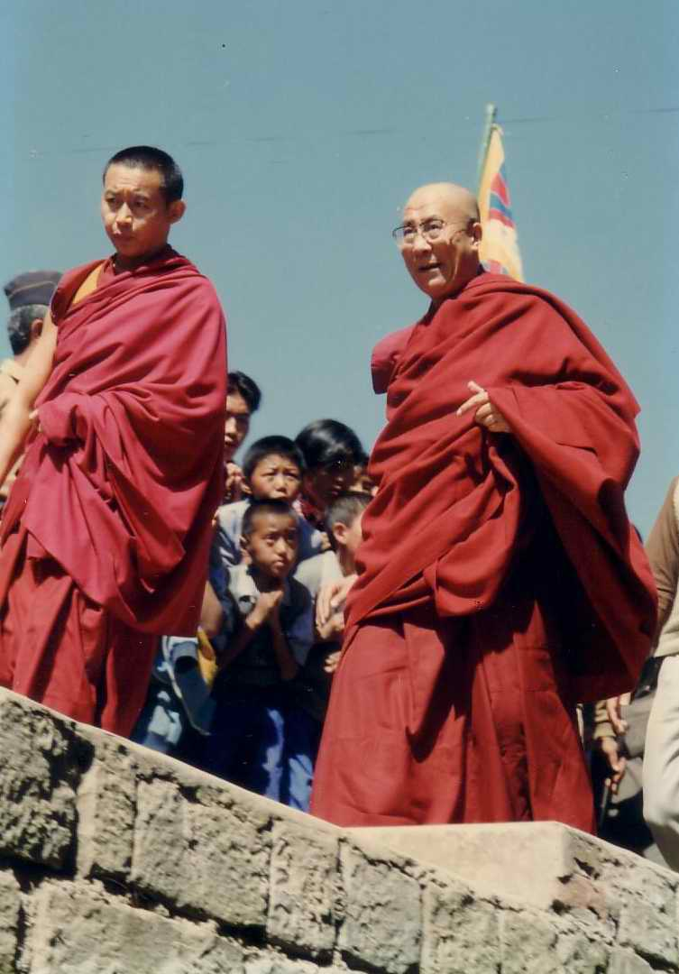 Photo of HH the Dalai Lama